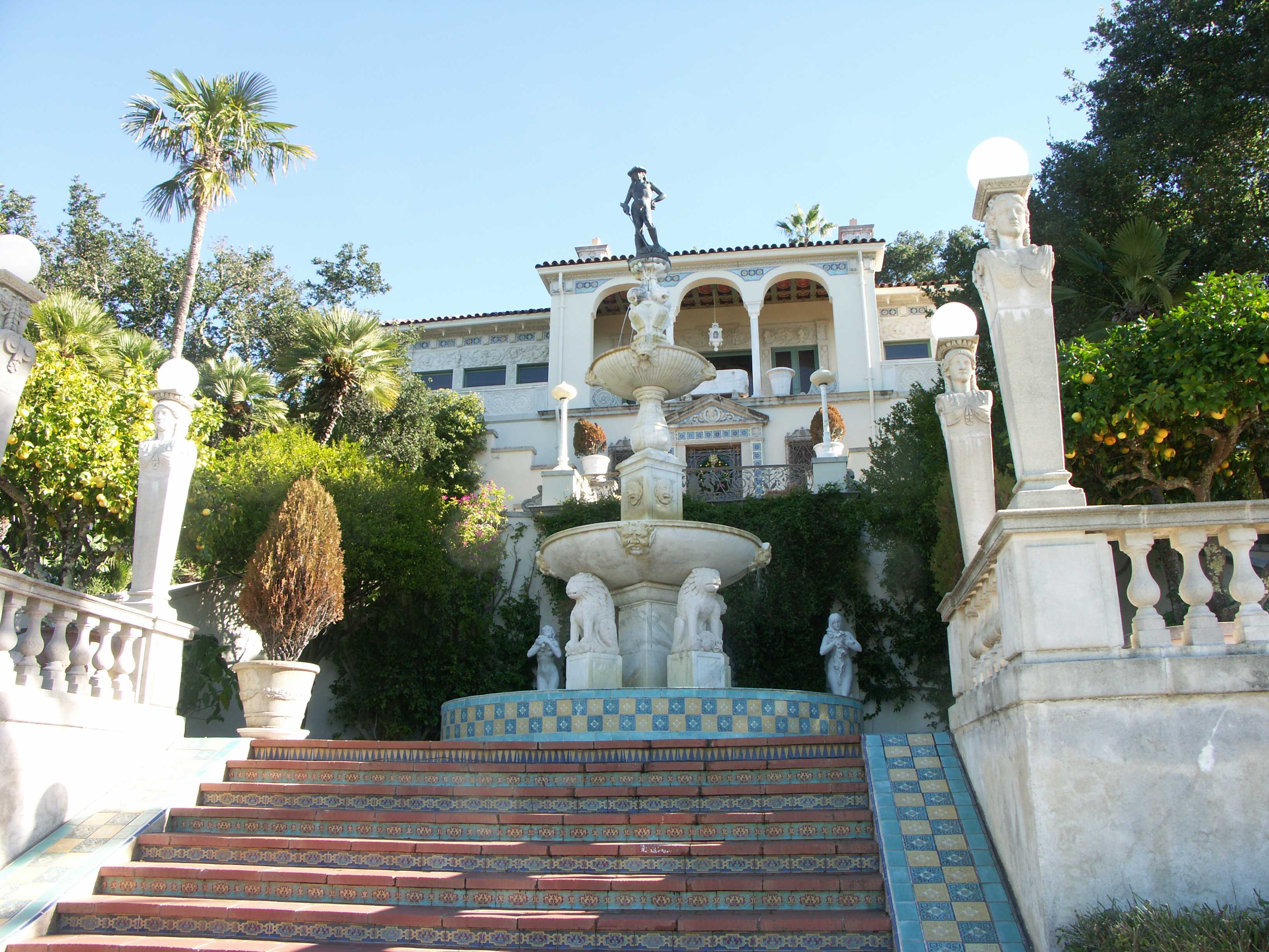 Heast Castle - Casa del Sol (1 of 3 guest houses) - View from the Neptune Pool